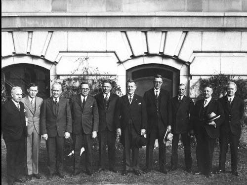 Members of the cabinets of Alberta and Saskatchewan. Left to right: Unknown, unknown, unknown, Richard Reid, Oran McPherson, James Thomas Milton Anderson, John Brownlee, unknown, unknown, unknown